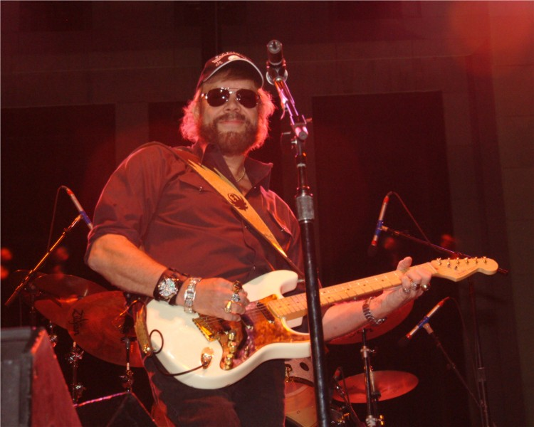 Photo of musician Hank Williams, Jr. in concert in Birmingham, Alabama.